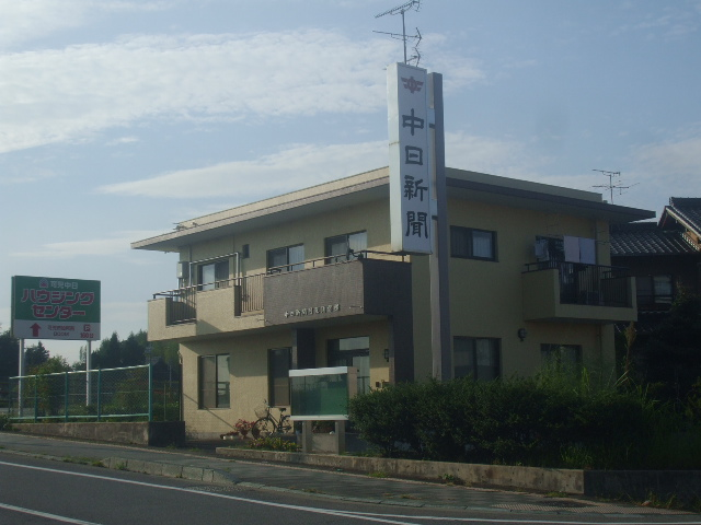 Chunichi News Paper Kani Station.